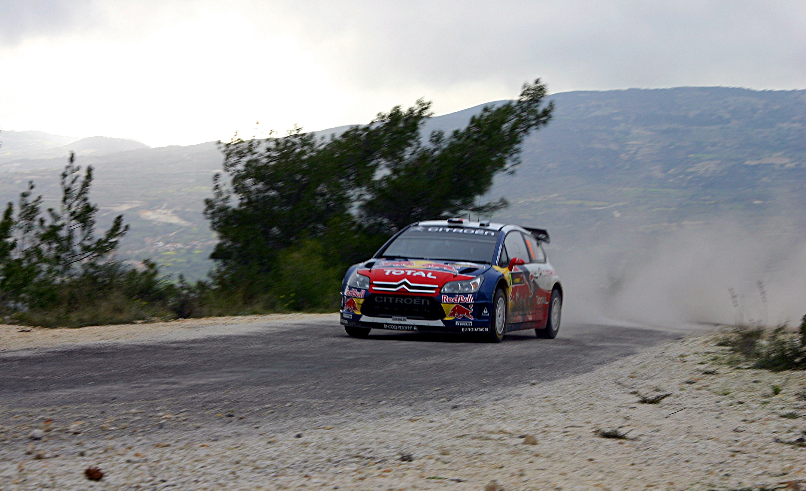 Sébastien Loeb driving his Citroën C4 WRC during the sixth stage of the 2009 Cyprus Rally.